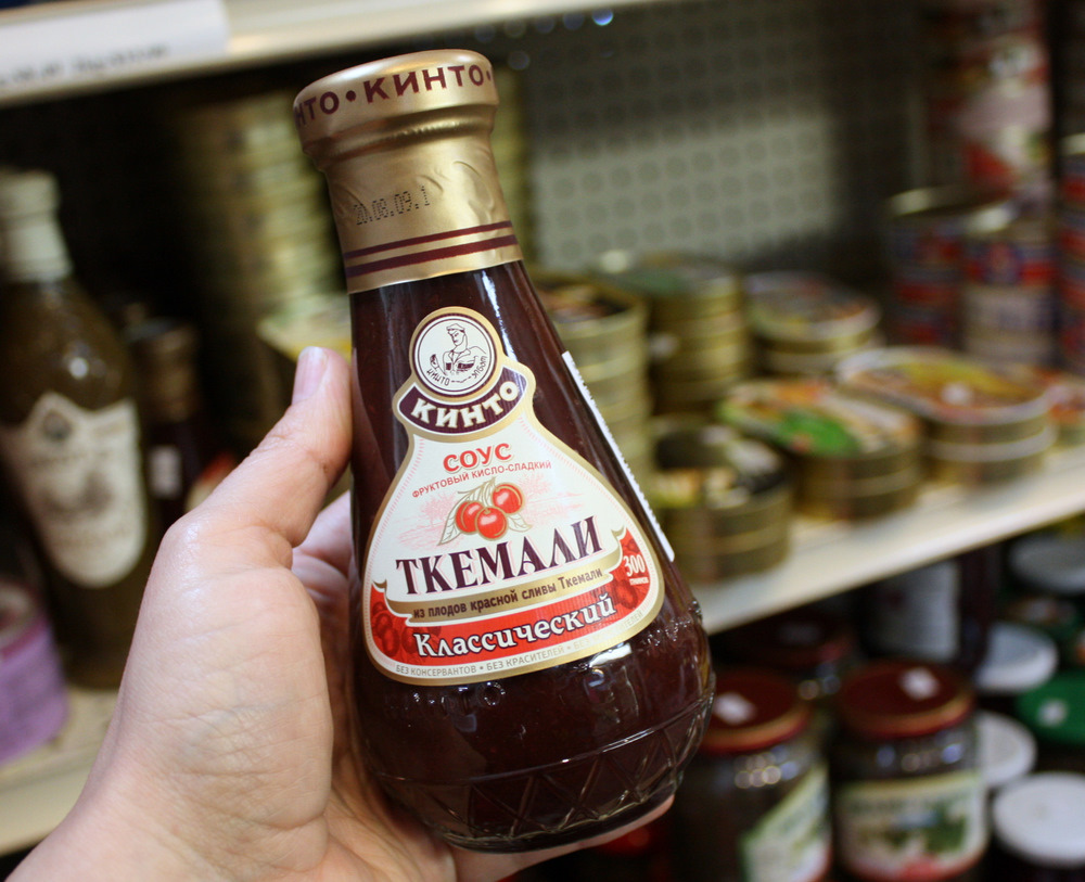 Wikipedia: "Tkemali...is Georgian name for cherry plum, as well as a sauce made of cherry plums. Tkemali is made from both red & green varieties of plum. The flavor of the sauce varies between sweet & pungently tart. To lower the tartness level, occasionally sweeter types of plums are added during preparation. Traditionally the following ingredients are used besides plum: garlic, pennyroyal, cilantro, dill, cayenne pepper & salt. Tkemali is used for fried or grilled meat, poultry & potato dishes much like ketchup is used in the West.” Also: “Tkemali should not be eaten on spaghetti." Noted! I bought a bottle, haven't used yet. Took a sample of it & it has a tangy, fruity flavor (more the bright flavorful side of that profile than just sweet) w/surprisingly harmonious undercurrent of dill. (I don't normally think of dill as something that would pair so well with fruity tang, but it works.)